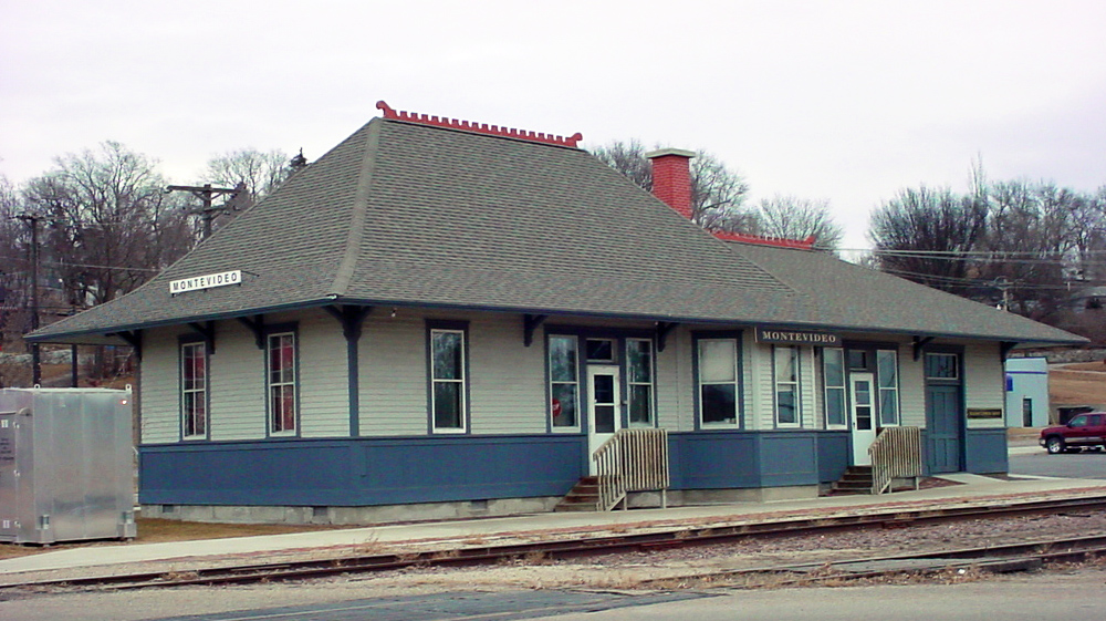 Restored Milwaukee Road depot at Montevideo, Minnesota. This structure was used as a train depot in the 2005 movie Sweet Land, but re-signed with the city name "Fargo." Jim Olson photo taken Jan. 13, 2007.